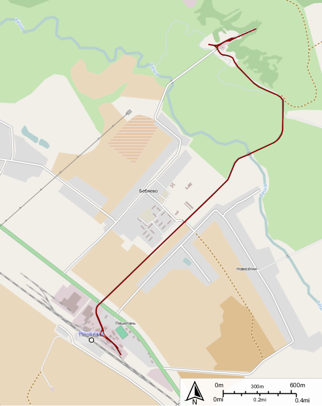 Narrow gauge railway of Peshelan gupsym mine Legend: ━━━ Narrow gauge railway ━━━ Broad gauge railway